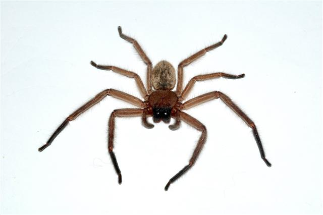 Female Delena cancerides, Huntsman Spider or Avondale Spider, native to Australia, naturalised in New Zealand, associated there with the Auckland suburb of Avondale.